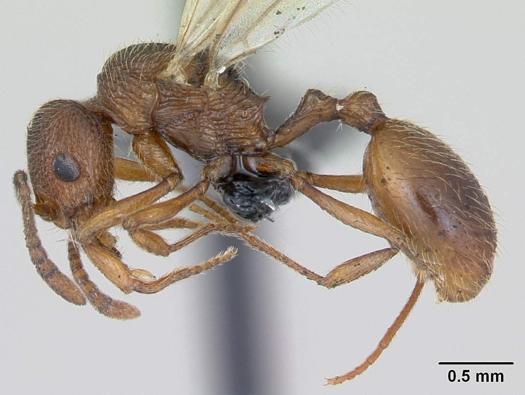 Profile view of ant Stenamma westwoodii specimen casent0173134.